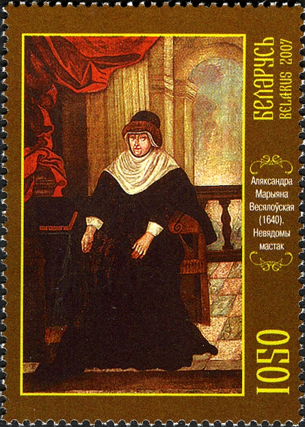 Stamp of Belarus